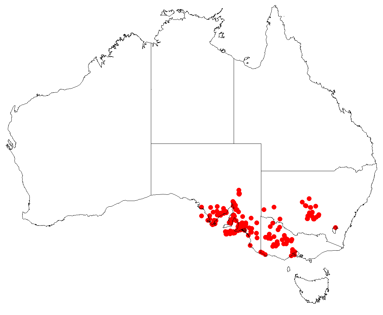 Billardiera versicolor occurrence data from Australasian Virtual Herbarium downloaded 5 July 2018